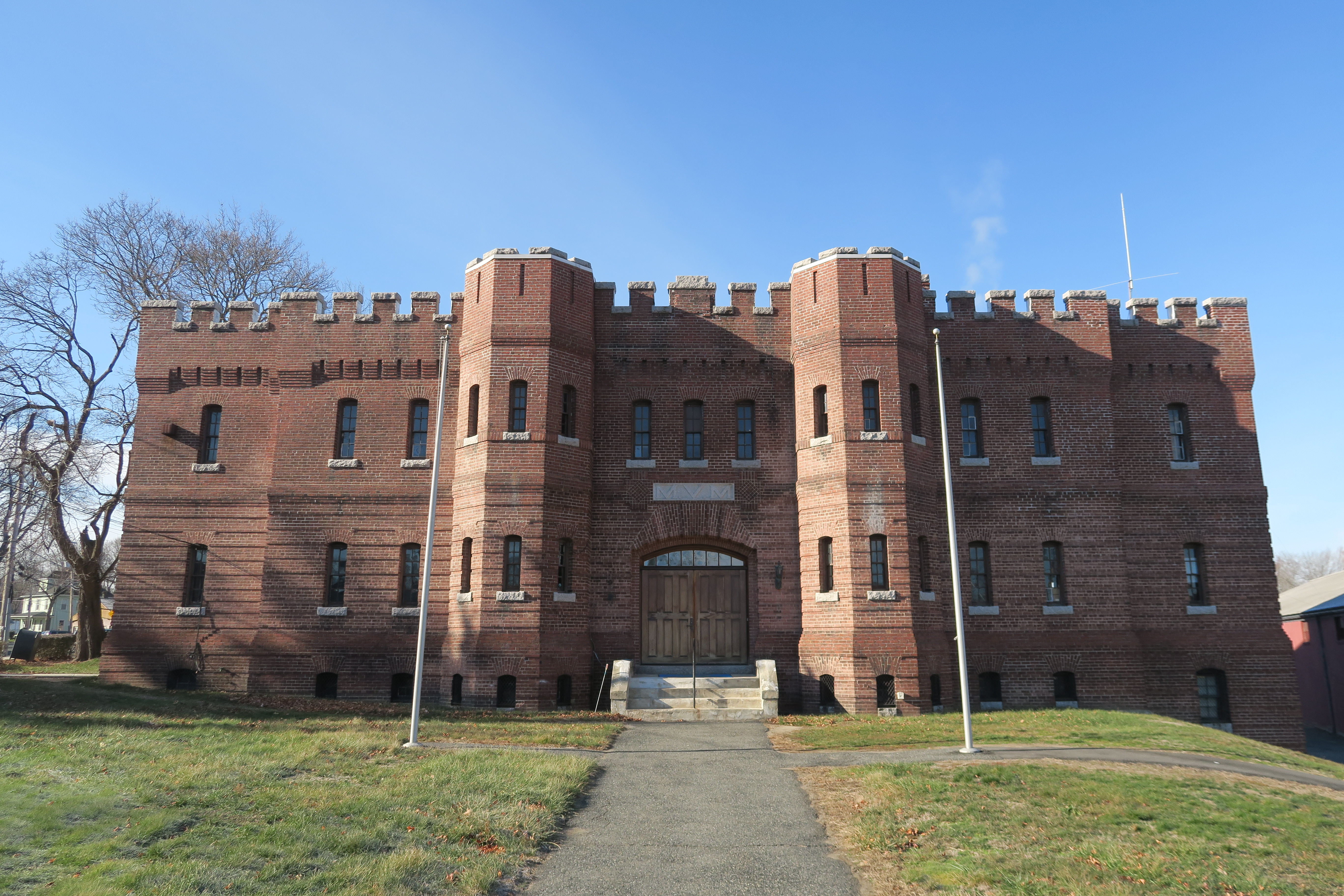 Hudson Armory, December 2016, Hudson Massachusetts